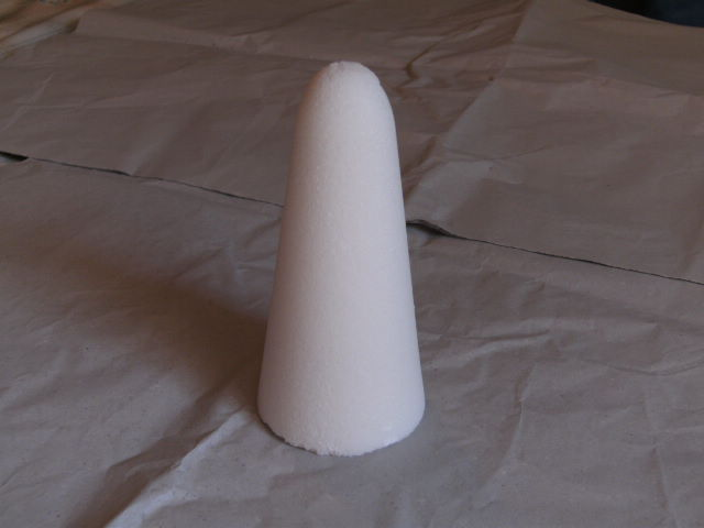 Sugar loaf from today